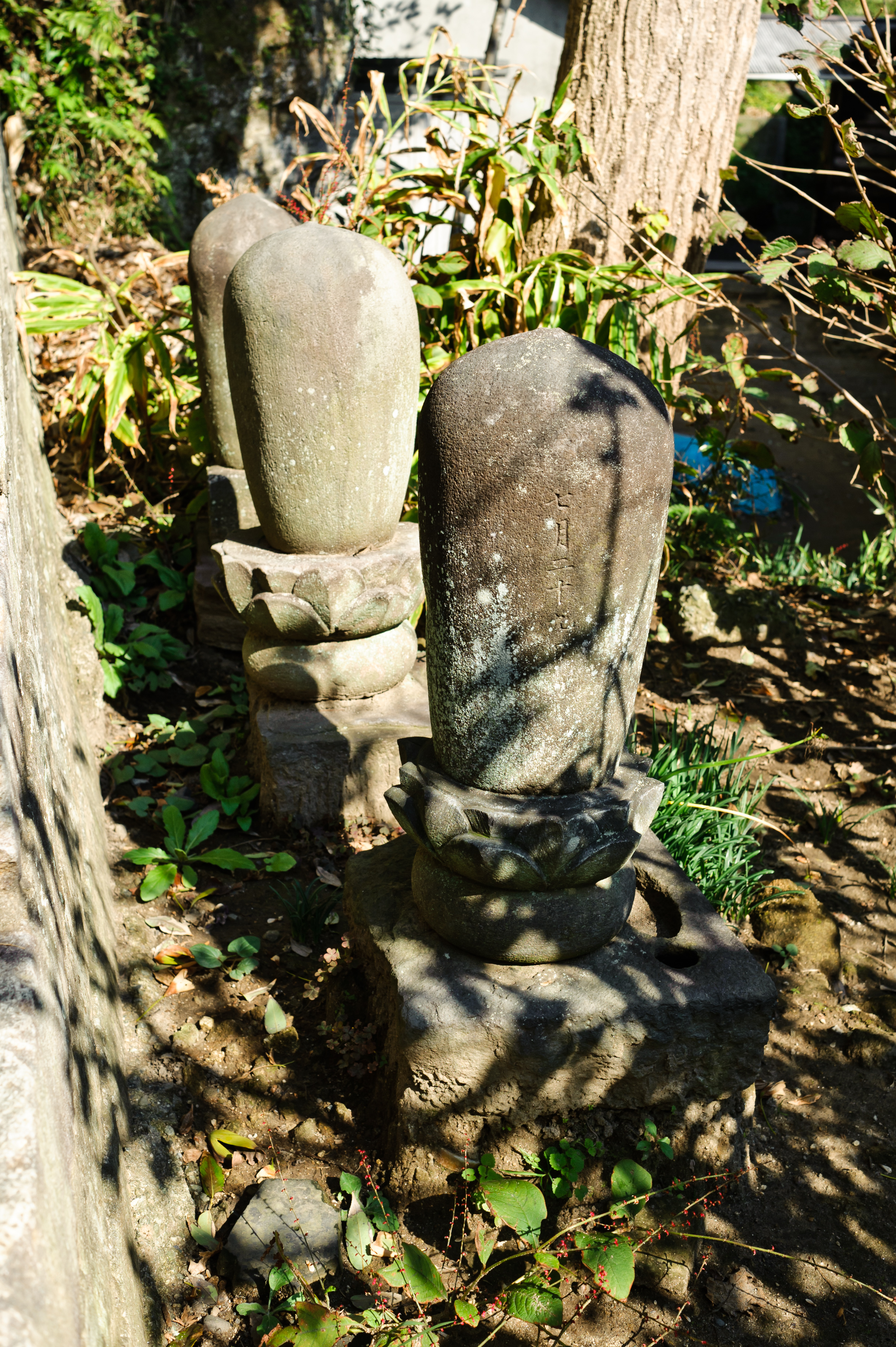 A muhōtō in the garden at Engakuji, Kamakura